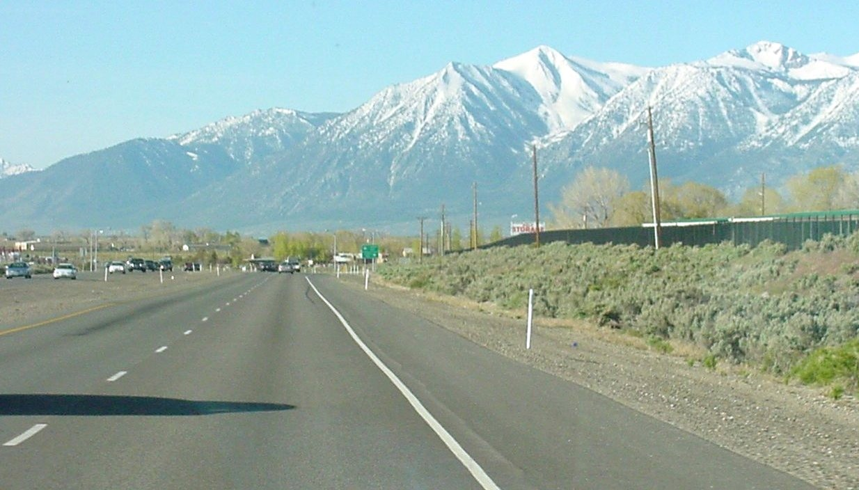 Looking south on U.S. Route 395, just south of the U.S. Route 50 junction in southern Carson City, Nevada. With the Carson Range behind: the rightmost mountain peak is Jobs Sister. The middle peak is Jobs Peak at 10,633 feet (3,241 meters) above sea level. Category:Images of Nevada